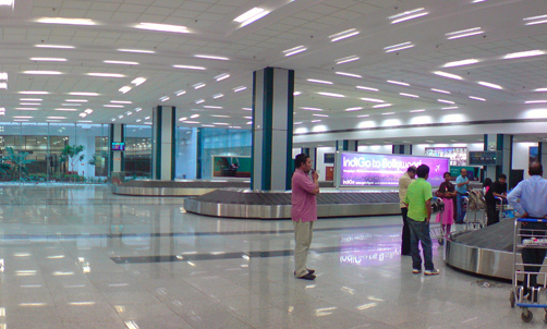 Baggage Claim Area at SVP International Airport, Ahmedabad